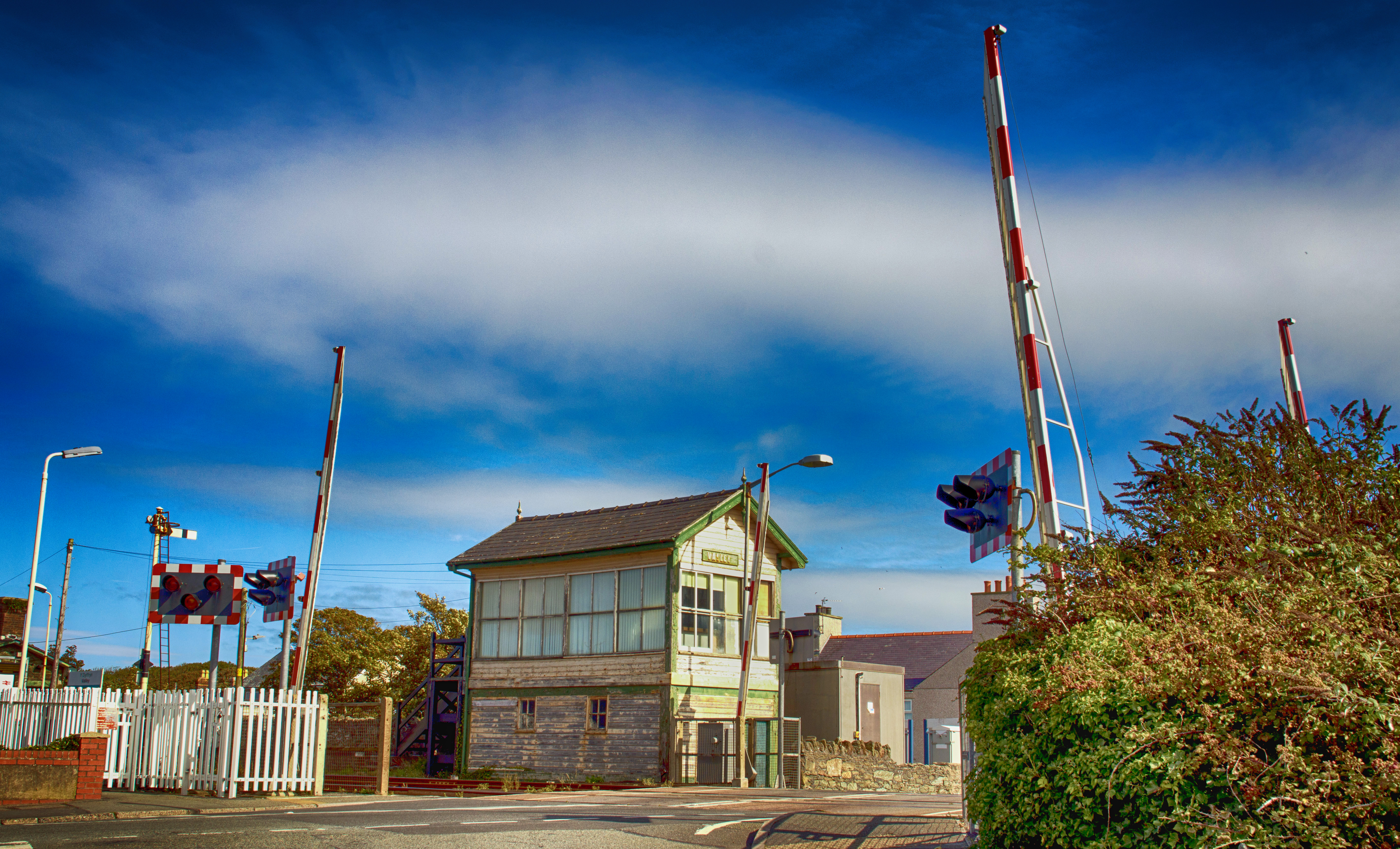 Valley Station Signal Box, Anglesey Wikidata has entry Q18708797 with data related to this item.